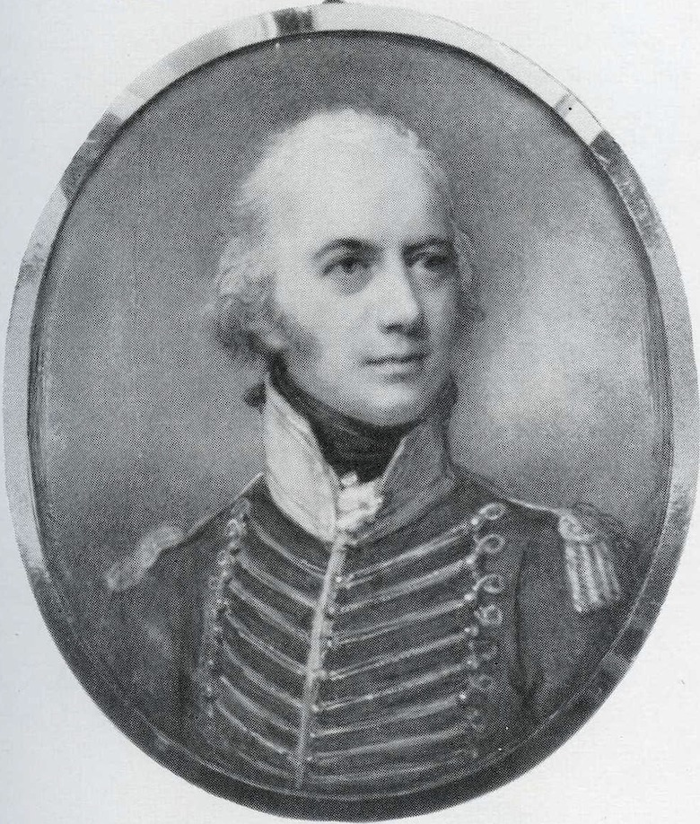 A very good miniature of General William Loftus of Kilbride, Co. Wicklow by Richard Cosway, head and gaze turned slightly sinister, with receding grey hair, wearing the blue uniform of the 24th Dragoons with silver facings and a white collar and black cravat, cloud and sky background, the reverse straited agate, oval 8cm.